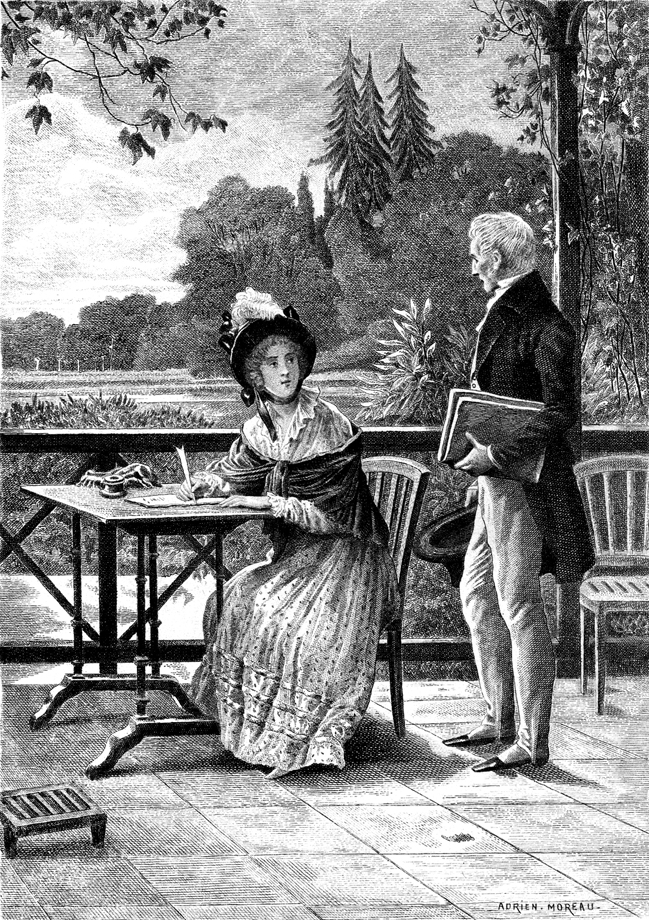 Title page of Honoré de Balzac's Memoirs of Two Young Wives (1842).